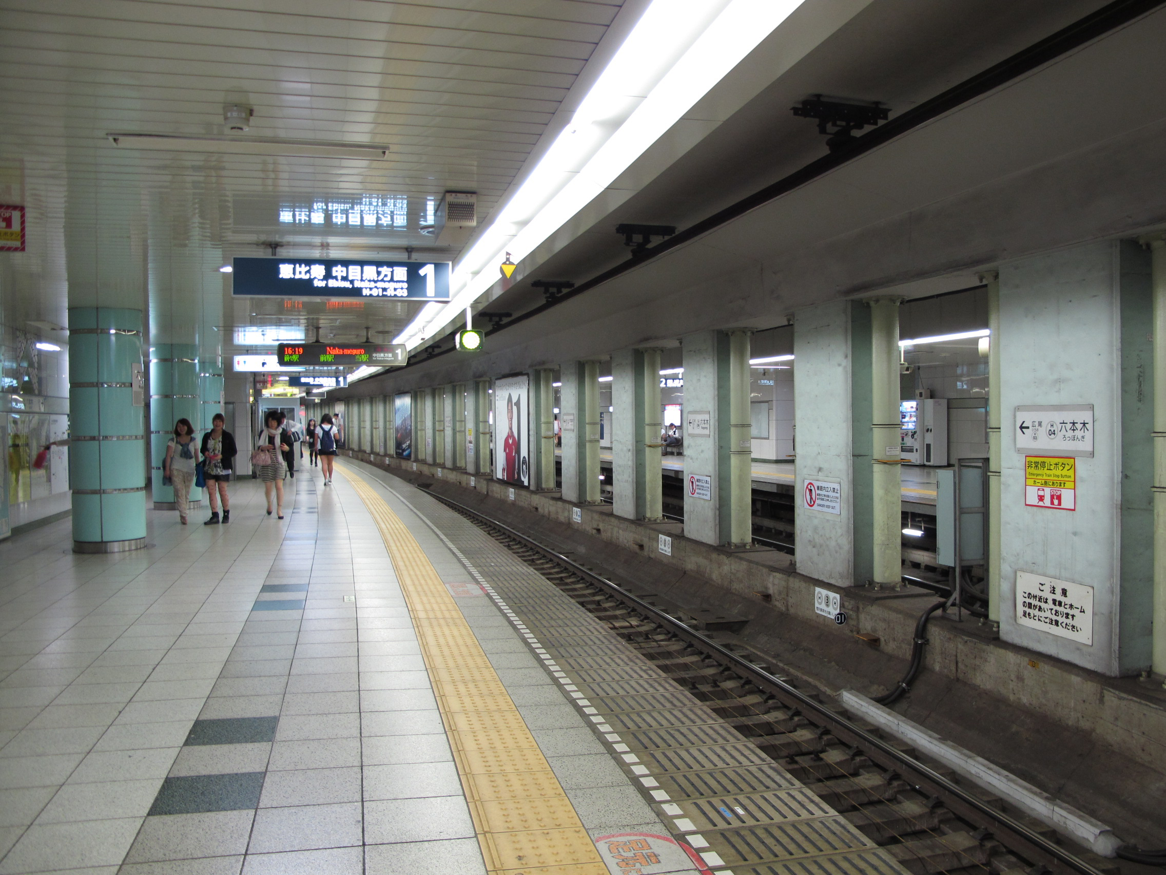 The Tokyo Metro Hibiya Line platforms at Roppongi Station in Tokyo